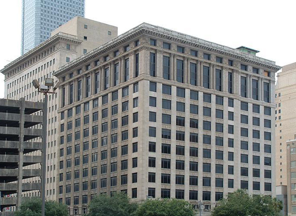 Texas Company Building